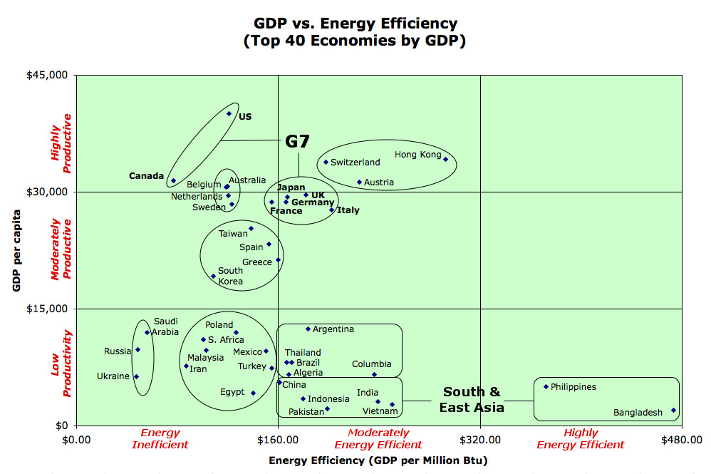 Peter Corless 30 Sep 2005 Analysis of top 40 largest national economies (GDP) by plotting GDP per capita vs. 'energy efficiency' (GDP per million Btus consumed); an inverse examination of 'energy intensity.'